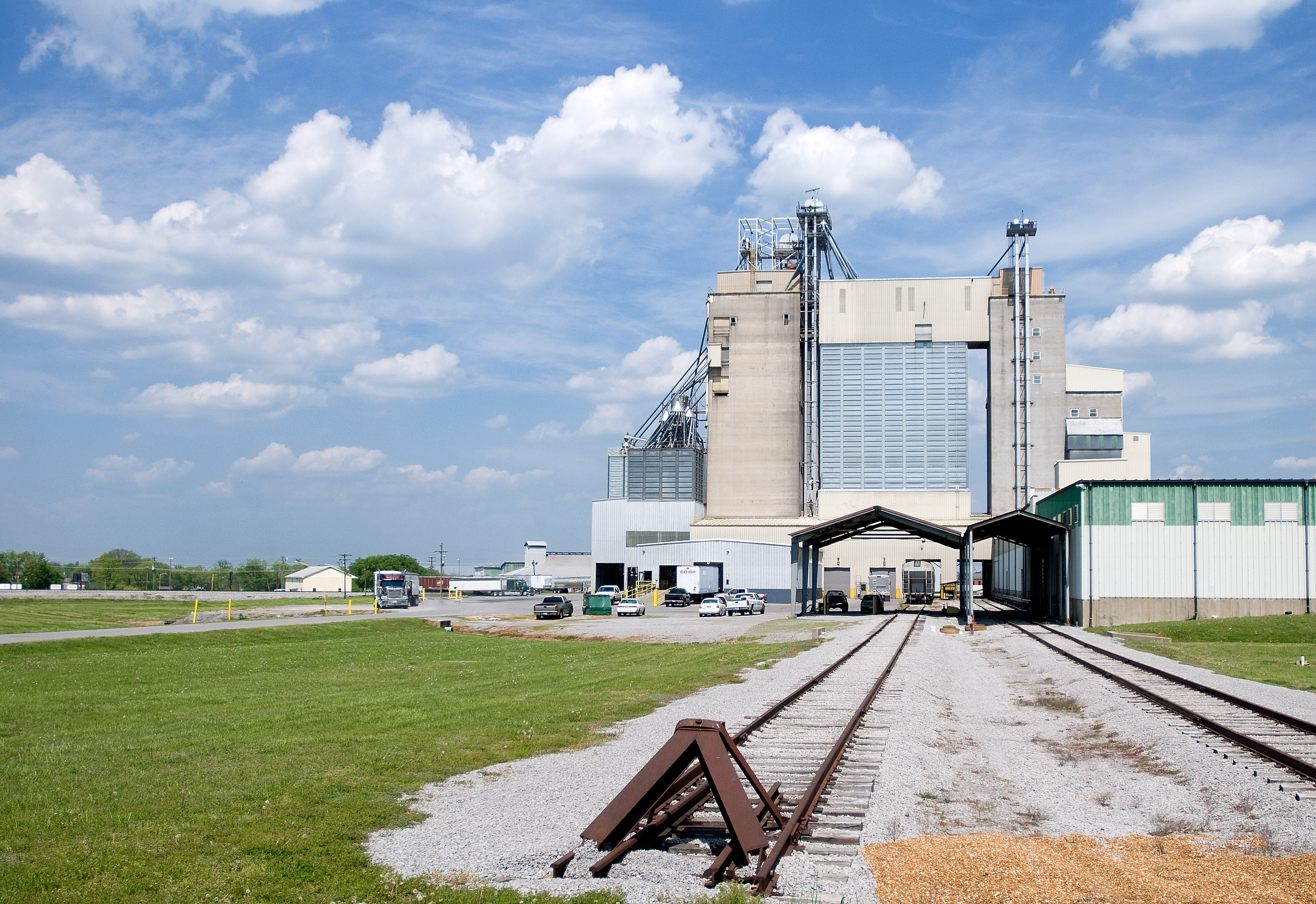 The feed mill at Tennessee Farmers Cooperative's LaVergne headquarters manufactures feed products for a wide variety of animals. The mill supplies local Co-ops in the Middle Tennessee area. Co-ops in West and East Tennessee are supplied by similar TFC feed mills located in Jackson and Tenco, respectively.